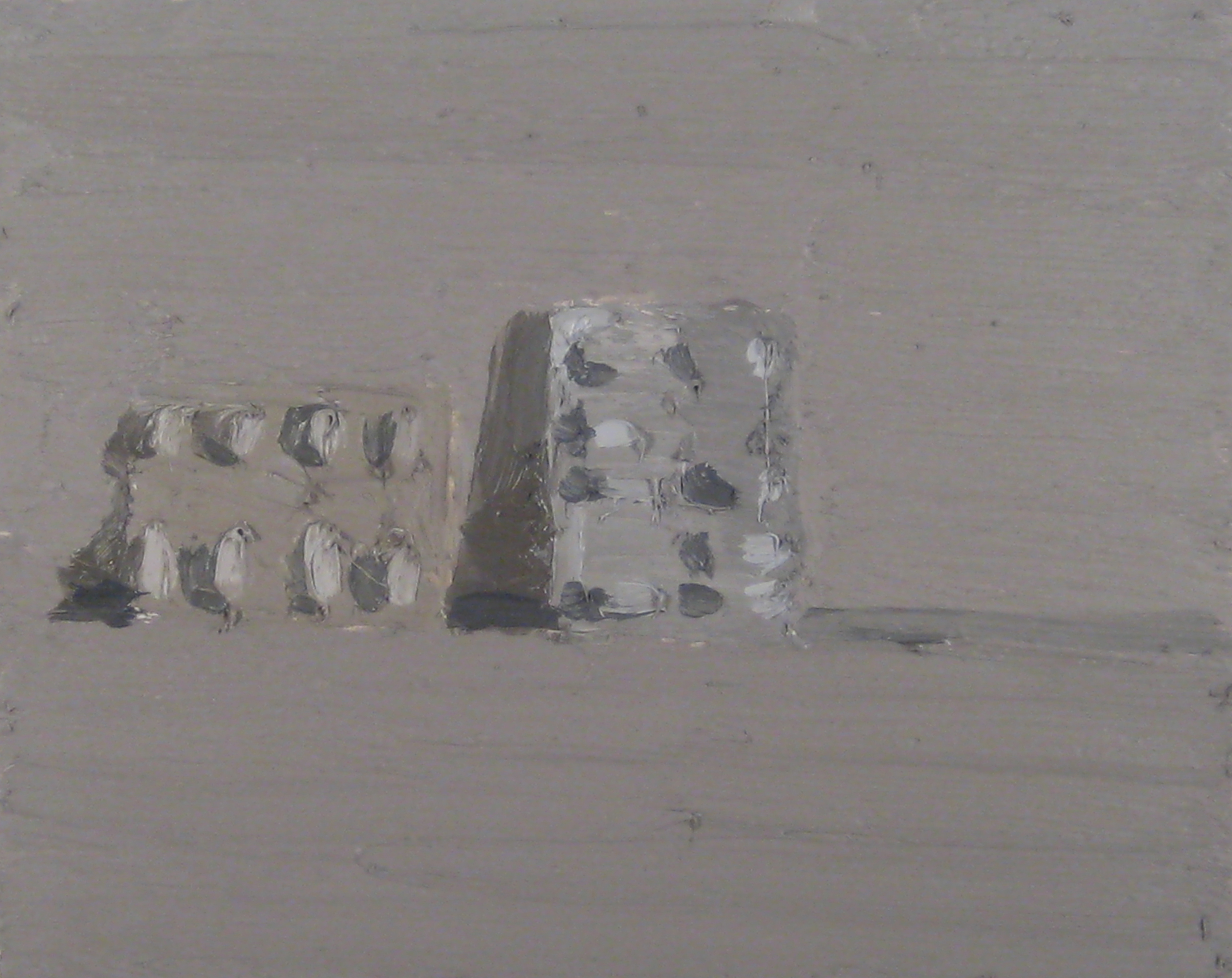 Oil Painting on panel, 20x25cm,2016